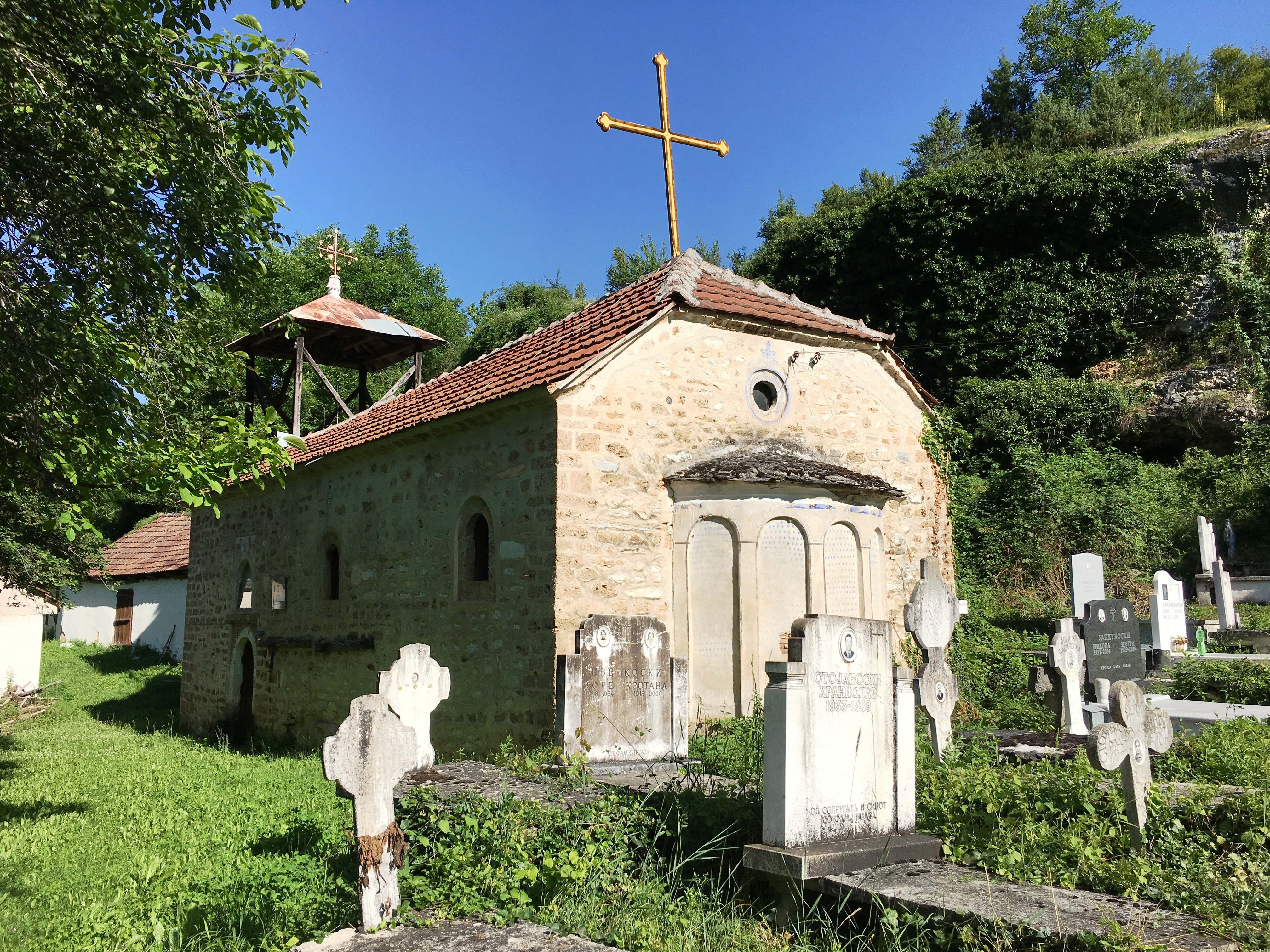 St. Pantaleon's Church in the village of Belica